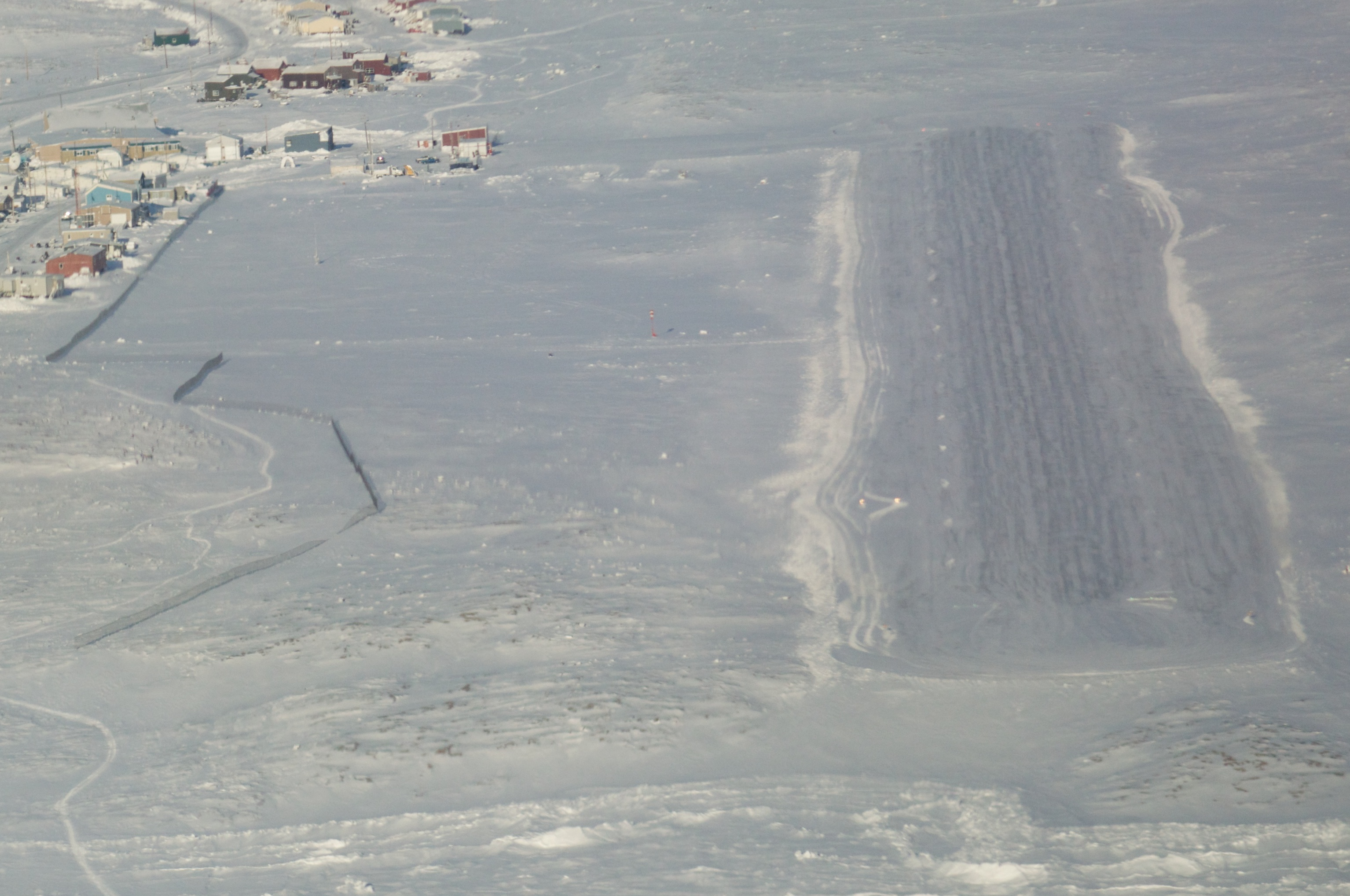 Naujaat (formerly Repulse Bay) airport runway, Nunavut